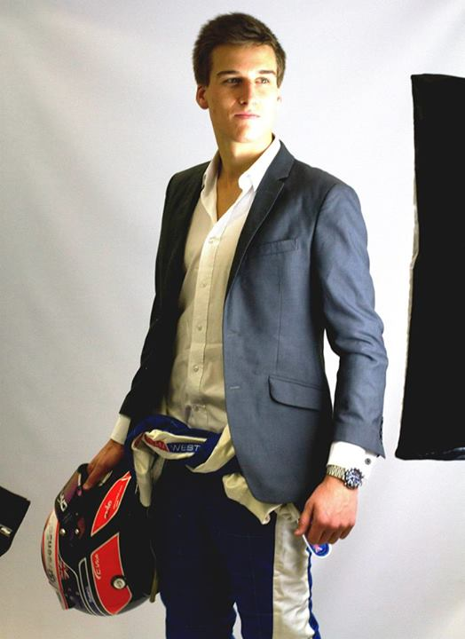 Chris Vlok 2013 F3 Formula 3 photo shoot